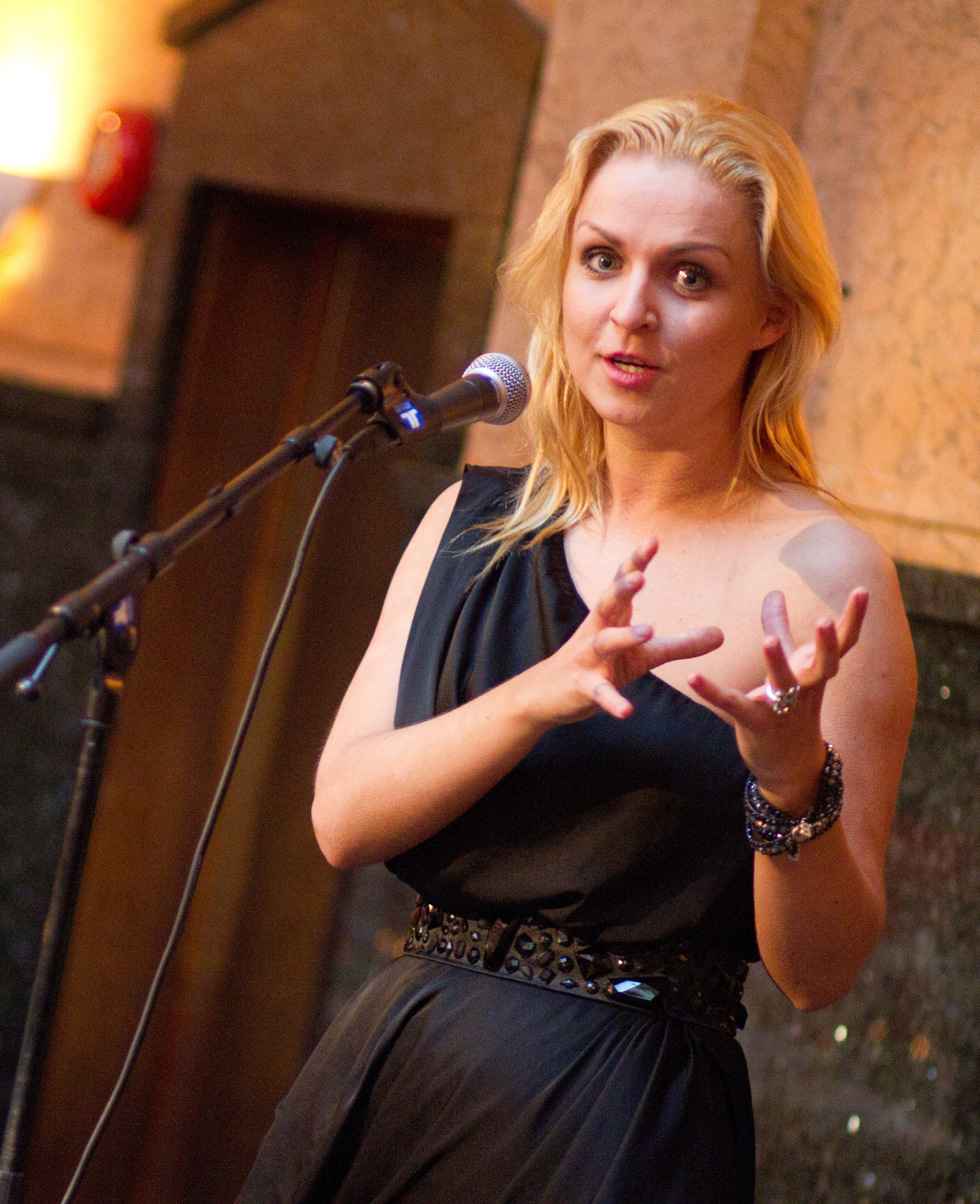 Nadya Khamitskaya during the Girl Dinner 2011 arranged by Start NHH.